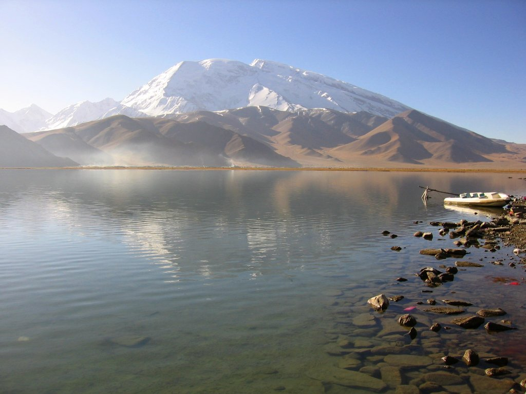 Mt. Muztagh Ata in Karakul Lake, close to Karakoram Highway in Xinjiang province (China).